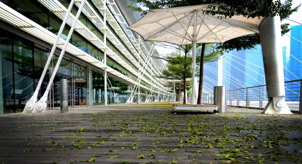 Terrace of Marina Bay Sands, Singapore